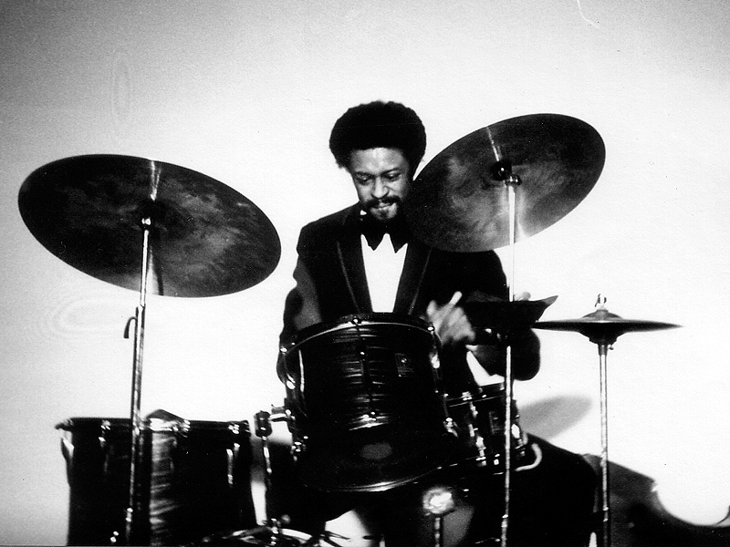 Louis Hayes in concert with the Oscar Peterson Trio 1971 in Aachen (Germany)